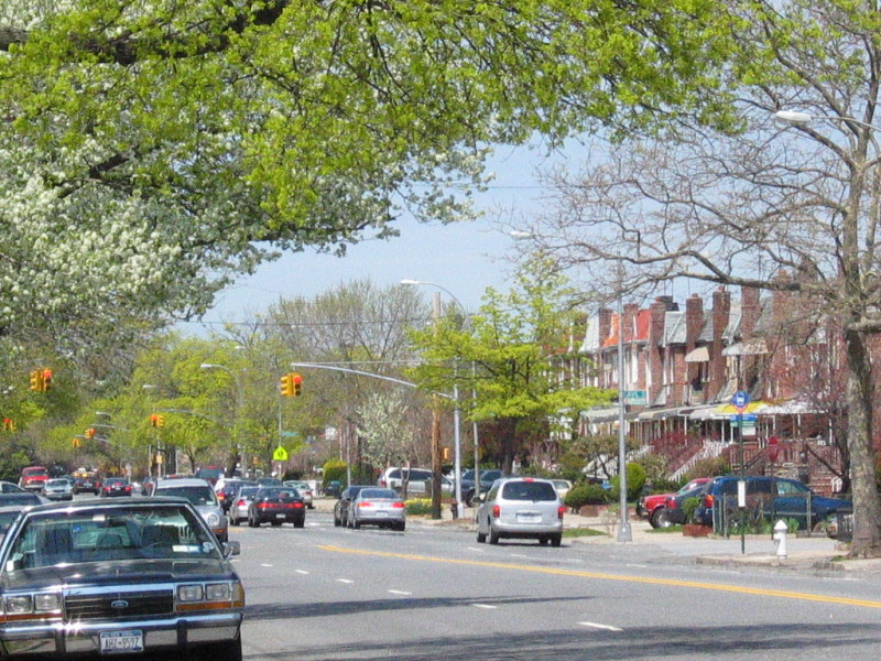 Gerritsen Avenue, one of the major Marine Park traffic corridors ... adorned by early Spring Greenery.